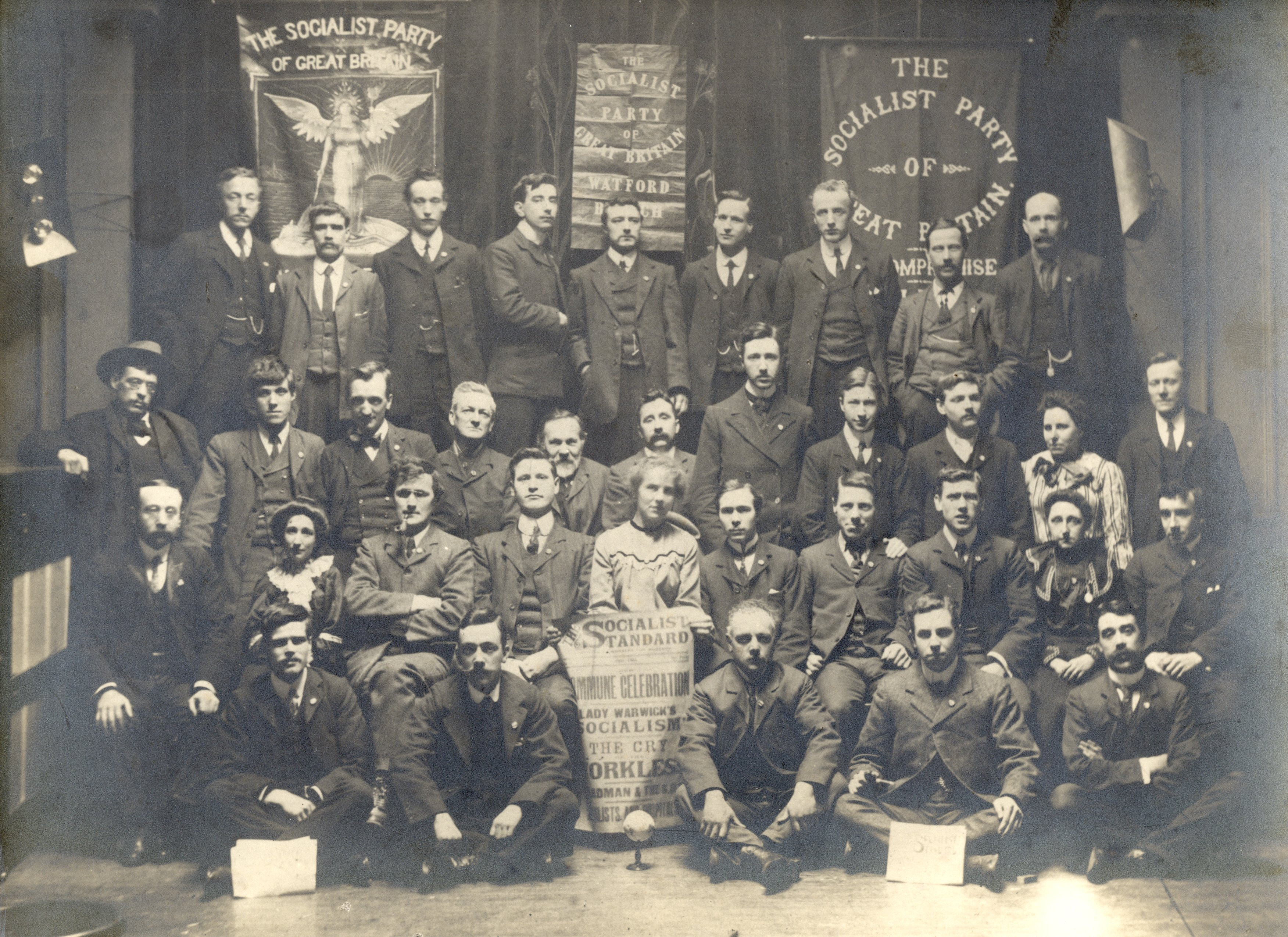 Socialist Party of Great Britain First Annual Conference, 20 April 1905, Communist Club, 107 Charlotte Street, London W